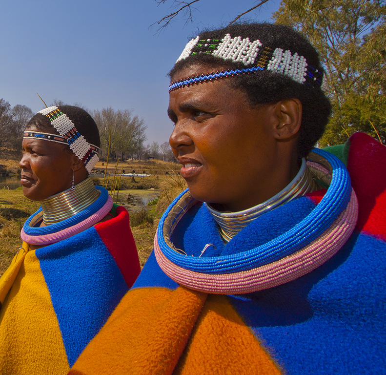 South Ndebele women from the Mapumalanga higveld (Botshibelo)., also called the Southern Transvaal Ndebele. The landscape is typical of the region.